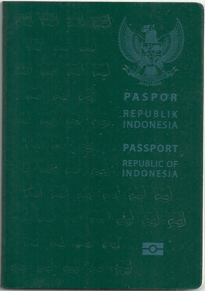 Cover of Indonesian electronic passport, first issued on 26 January 2011. The coat of arms, words and the e-passport logo on the scan result here are depicted in light blue, however they are actually in dark orange color on the real passport. Special ink/dye may have been used to demonstrate such behavior, perhaps to enhance security.